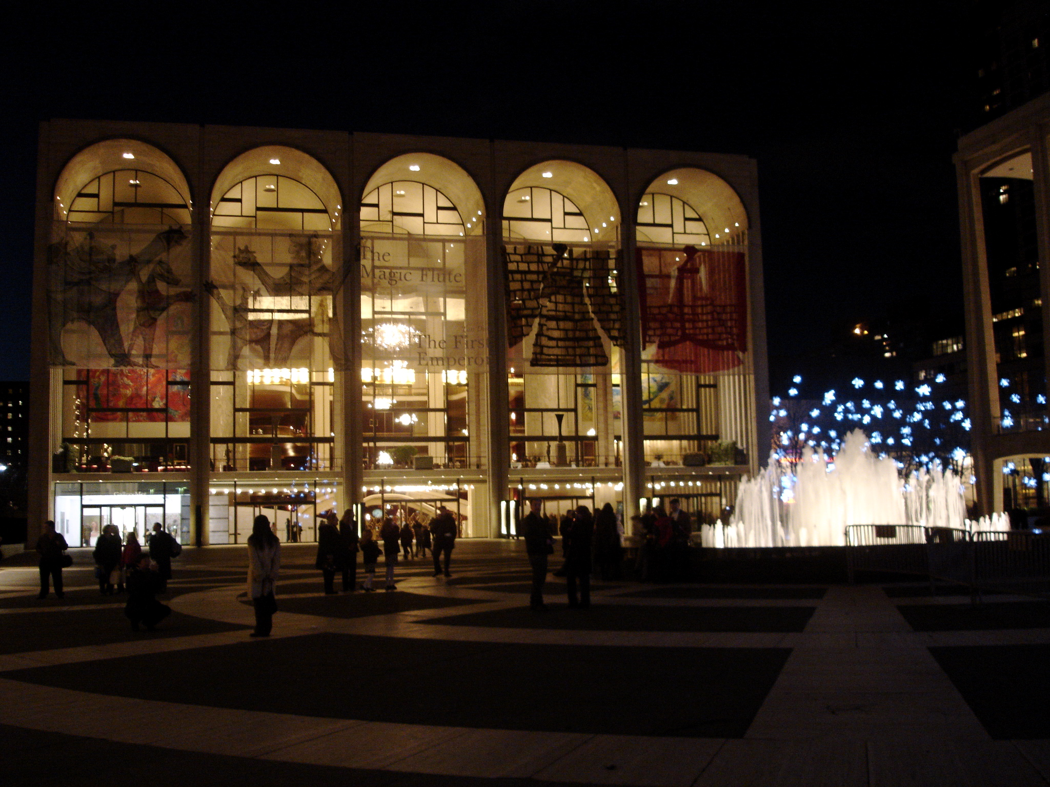 The facade of the Metropolitan Opera House at Lincoln Center, New York, New York.